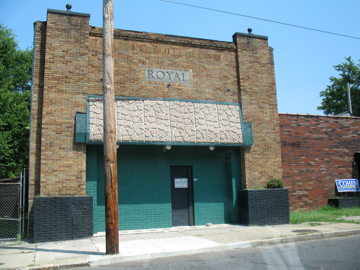 The Royal Recording Studios (also Hi Recording Studio), located at an old movie theatre at 1320 Willie Mitchell Blvd. This recording studio was founded by the owners of Hi Records and several hit singles were recorded here (e.g., "Let's Stay Together" by Al Green).